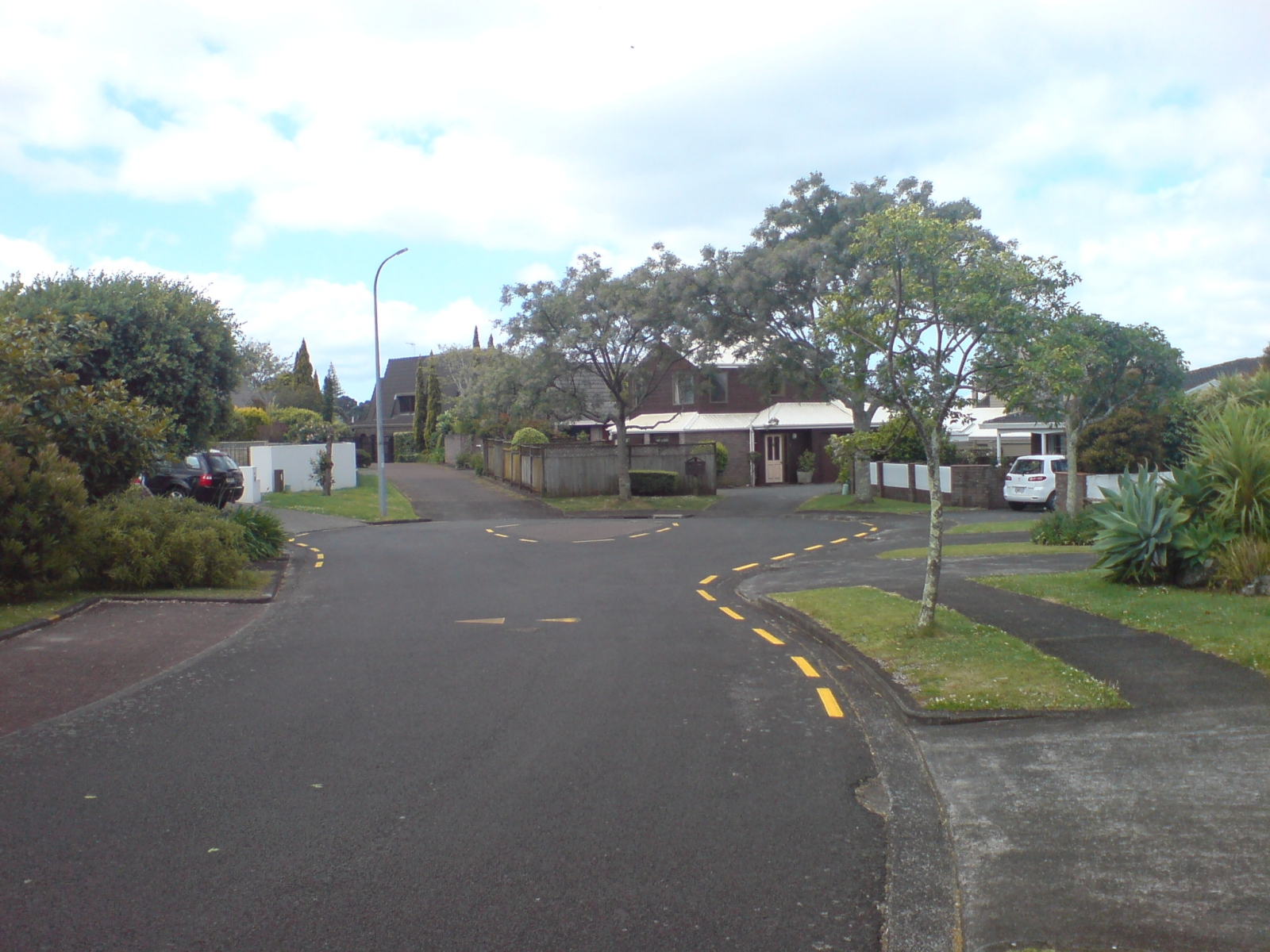 A small cul-de-sac in Pakuranga, Auckland City, New Zealand. Looking northeast. An access to what is now the the extended Rotary Pathway is to the right.